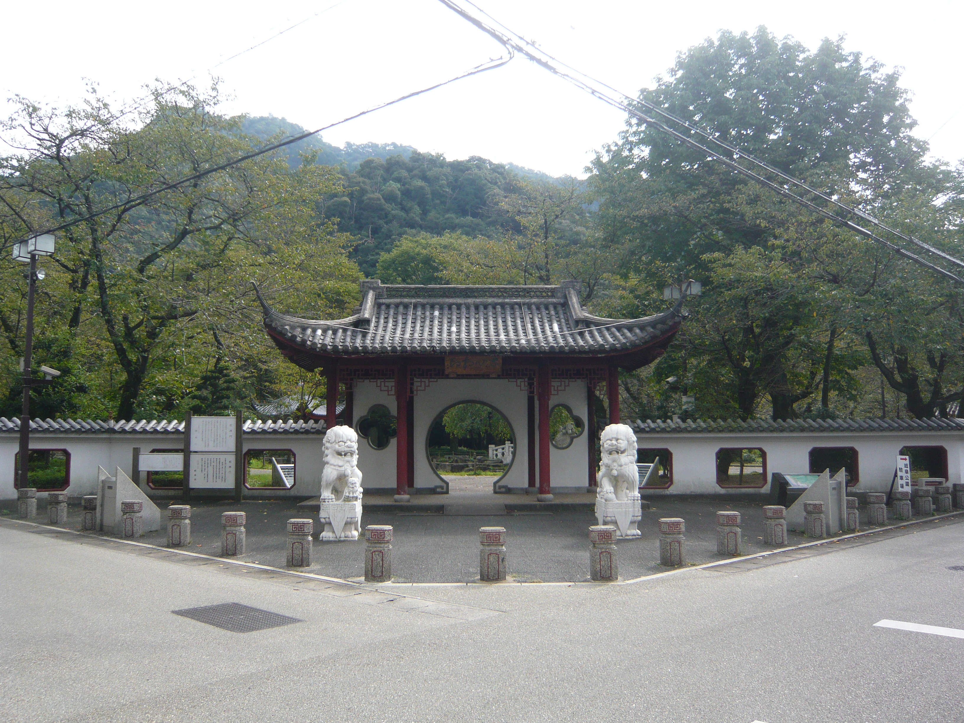 Japan and China Friendship Garden（日中友好庭園）,Gifu,Gifu,Japan（岐阜県岐阜市）で撮影。